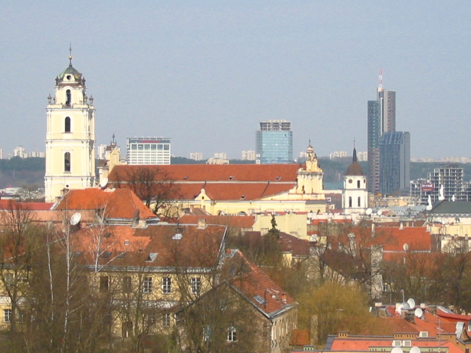 Vilnius' old city with the newer parts of the capital in the background